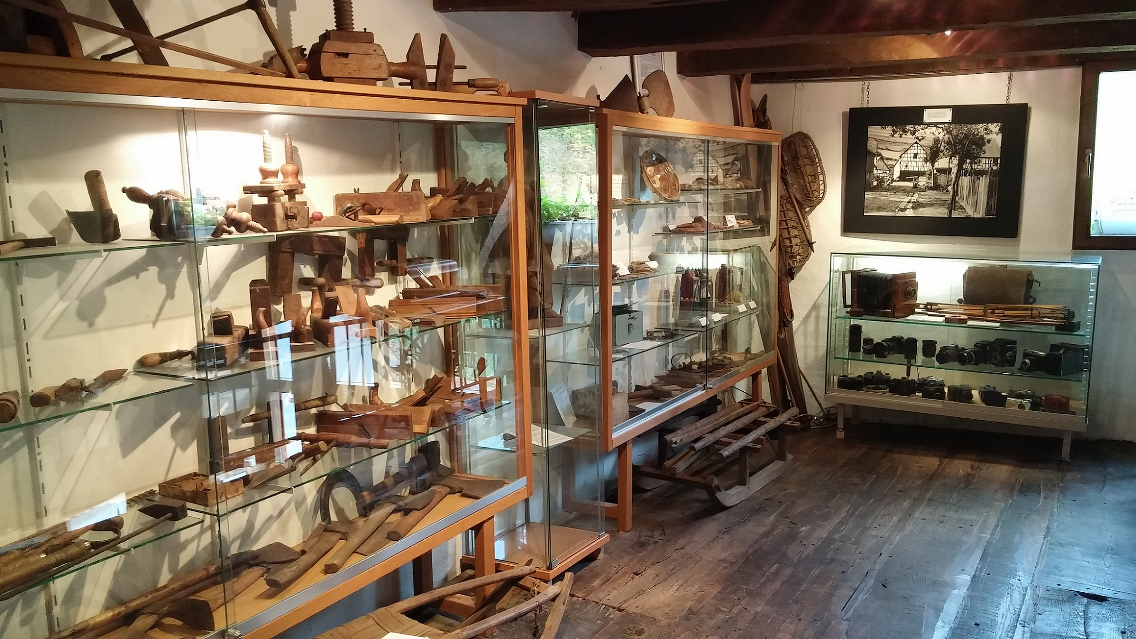 Museum Borg´s Scheune in Züschen/Winterberg